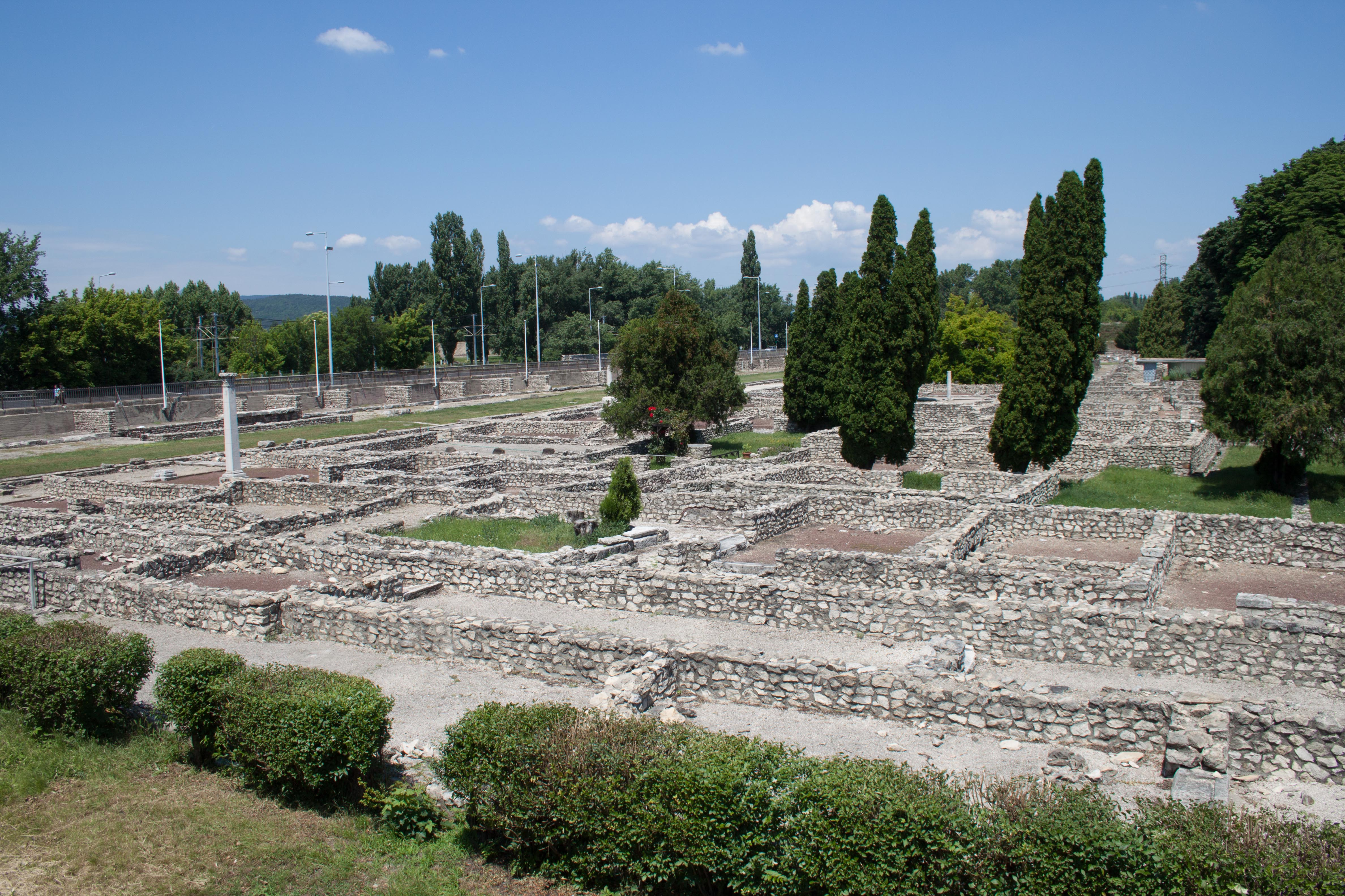 Ruins of Aquincum